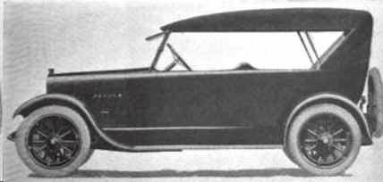 1917 Columbia Six Touring by the Columbia Motor Co., formed in 1916. There is no connection to the earlier Columbia electric and gasolene cars built 1899-1913.